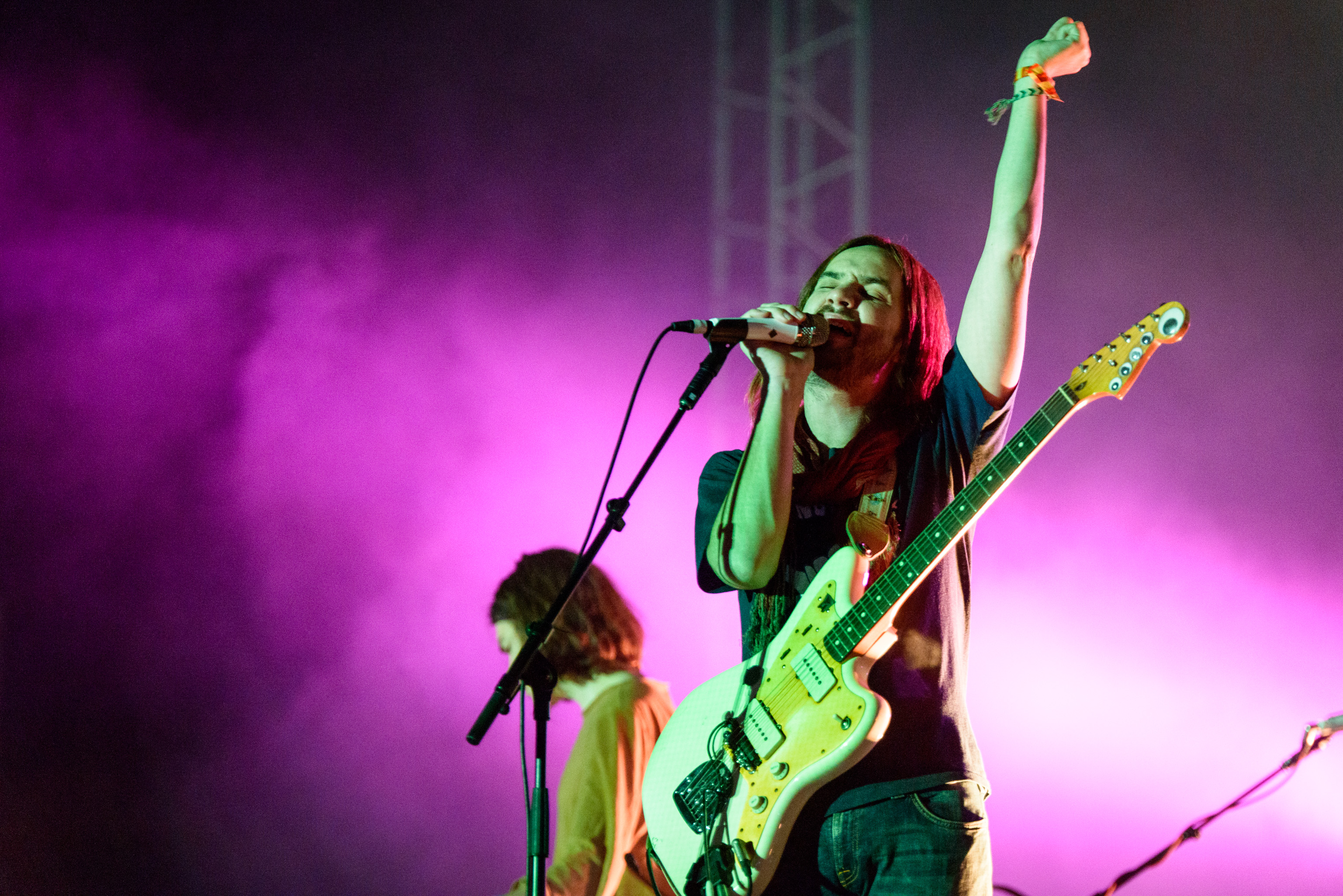 Tame Impala @ Lollapalooza 2015